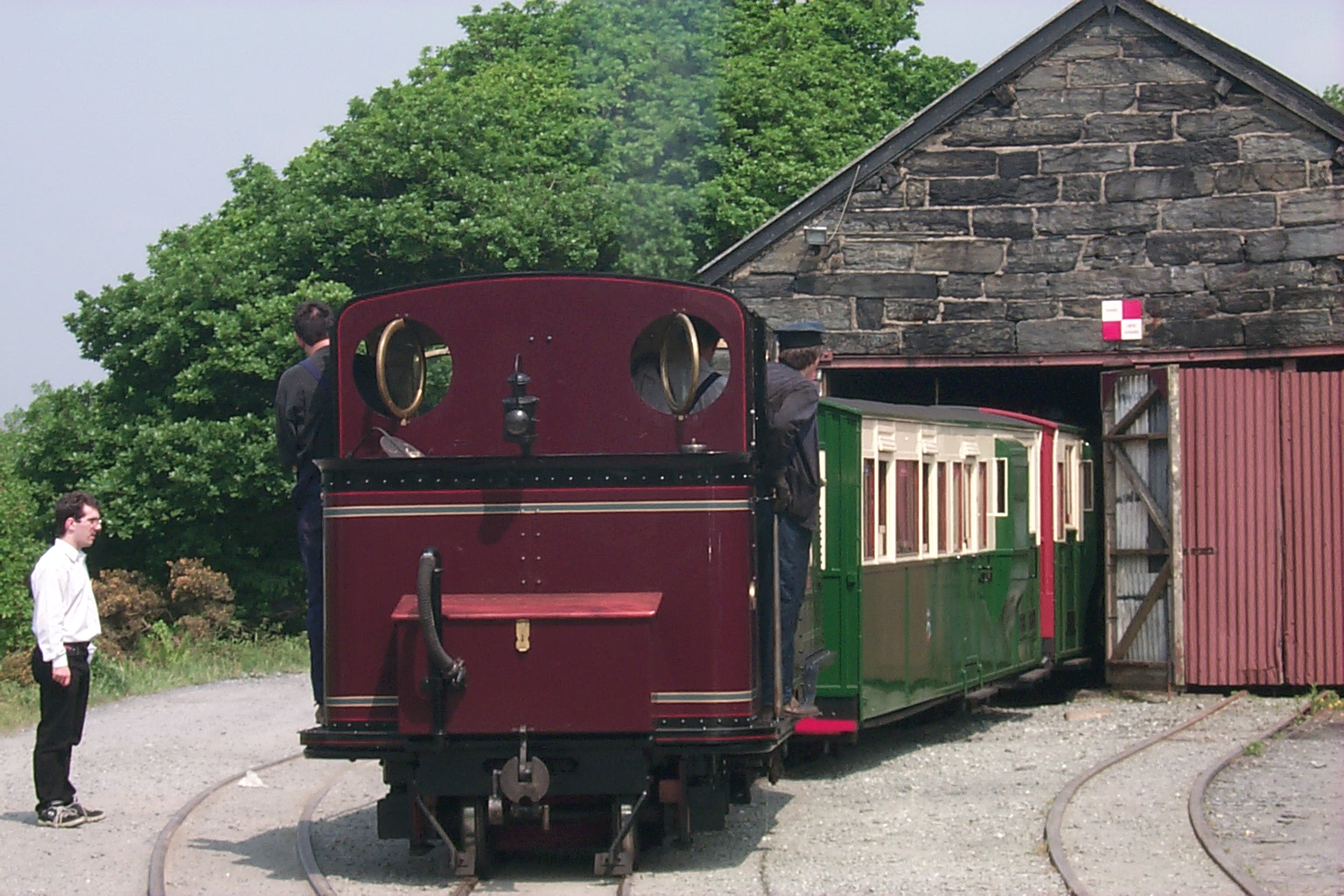 Boston Lodge locomotive shed on the Ffestiniog Railway Author: Dan Crow